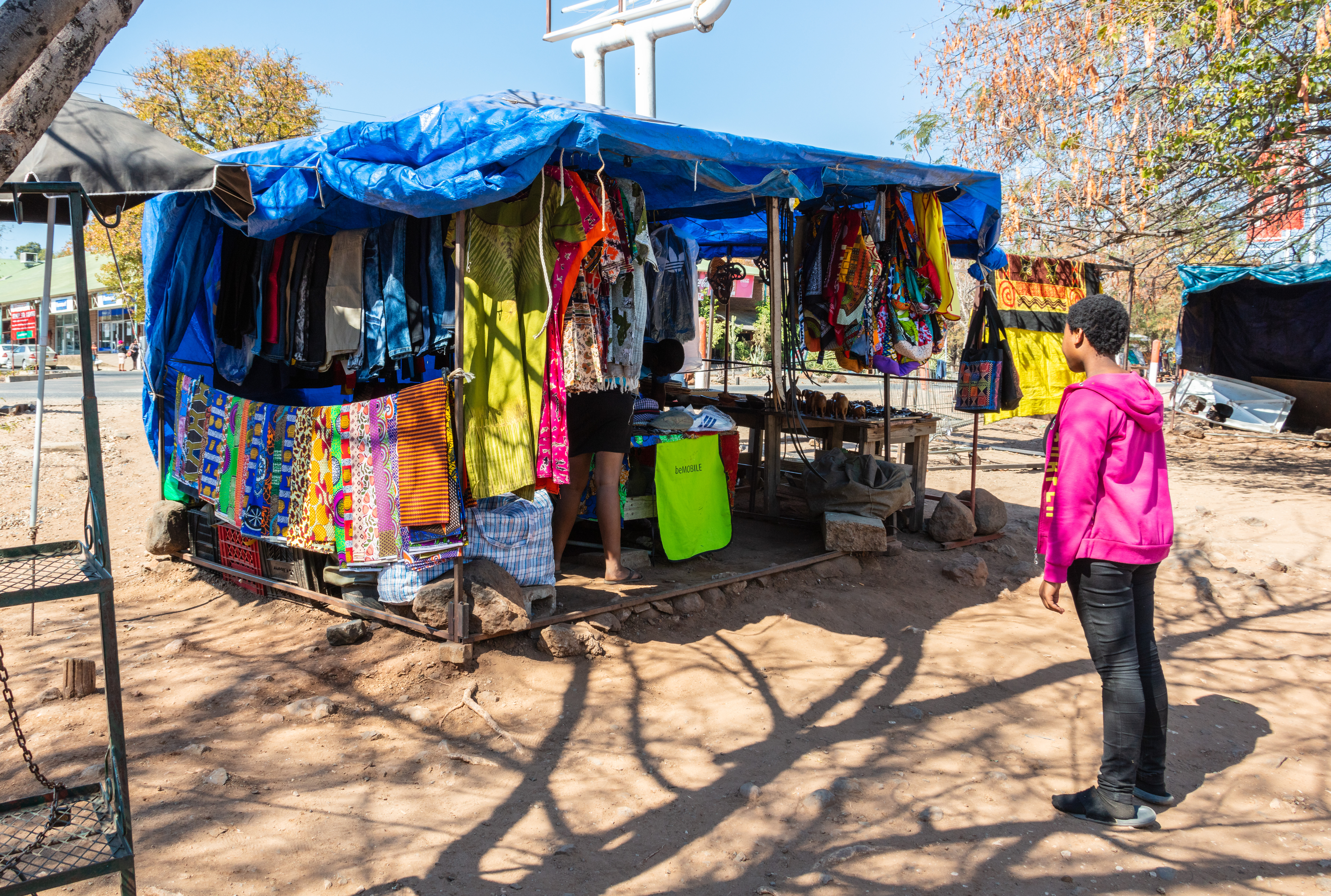 Shops in Kasane, Botswana